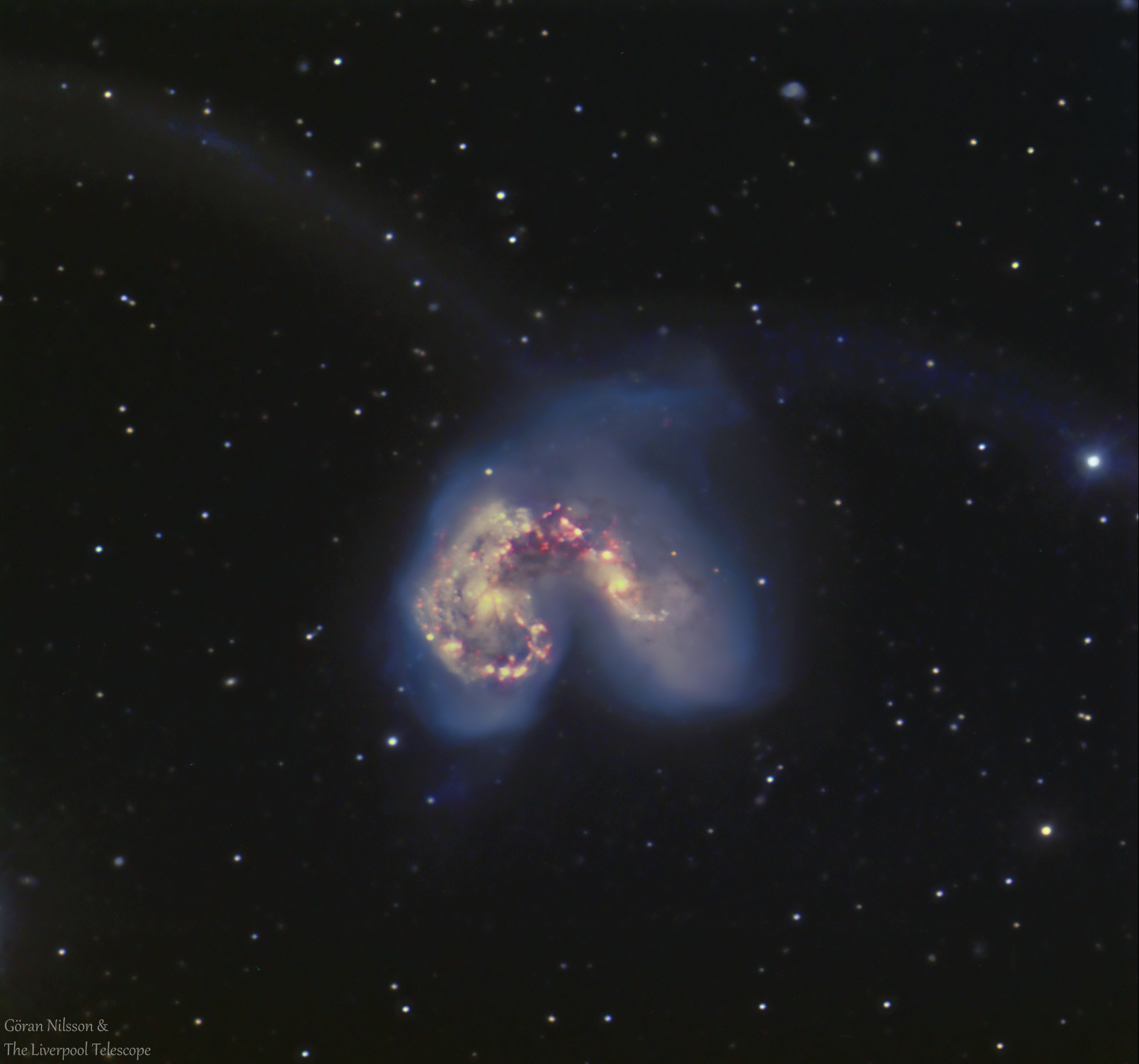 RGB image of The Antennae Galaxies NGC 4038 and NGC 4039. Data from the Liverpool Telescope, a 2 m RC telescope on La Palma. Processed by Göran Nilsson. Exposures: 58 x 60s = 1 hour.